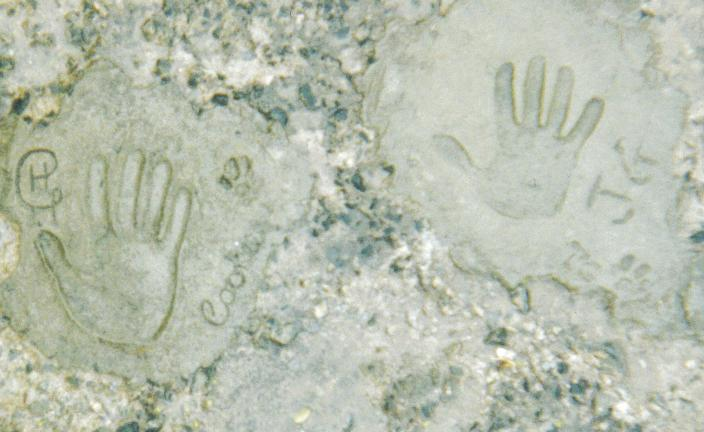 Handprints made in wet concrete.